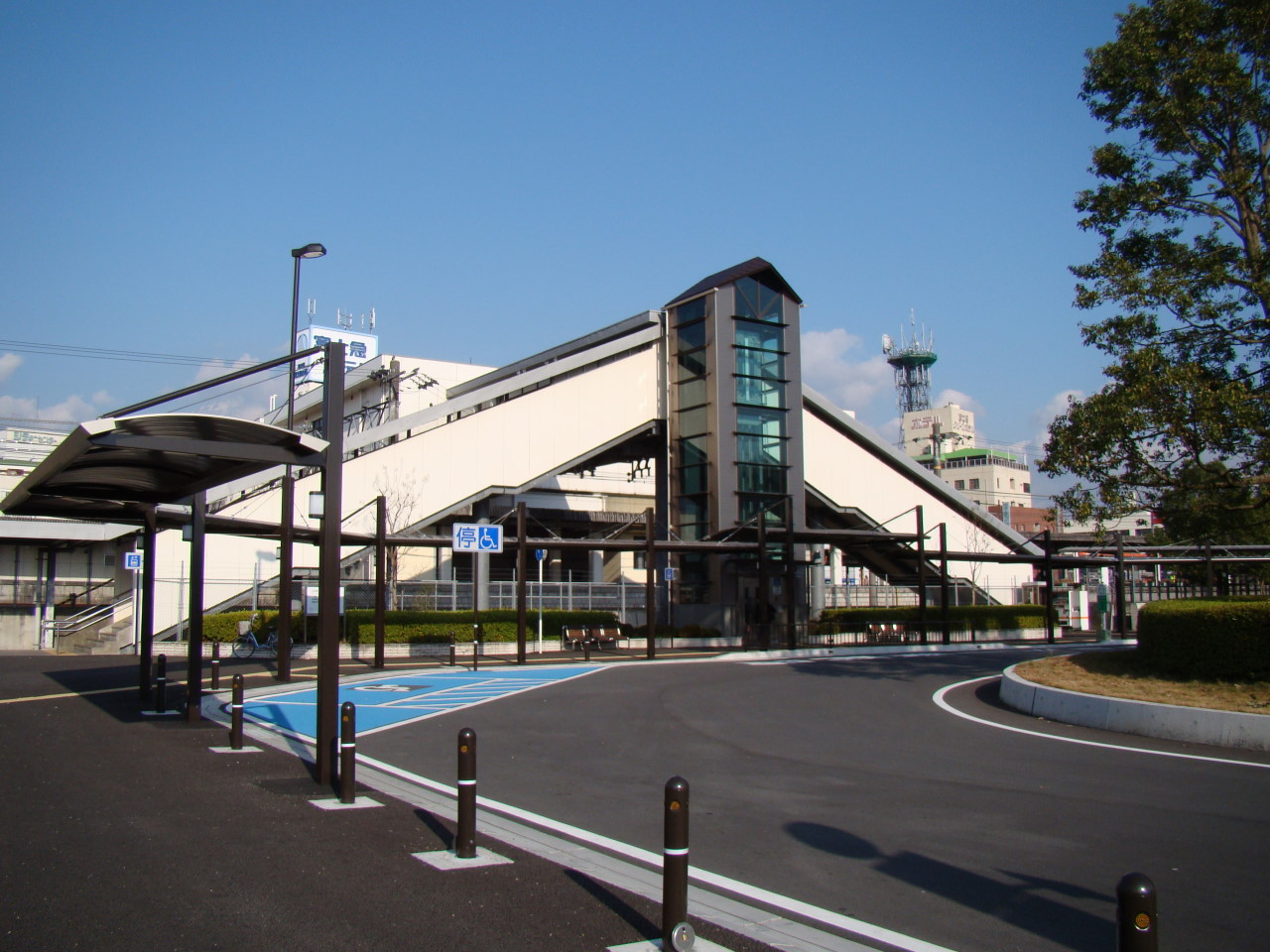 Fujinomiya station south entrance Shizuoka Japan